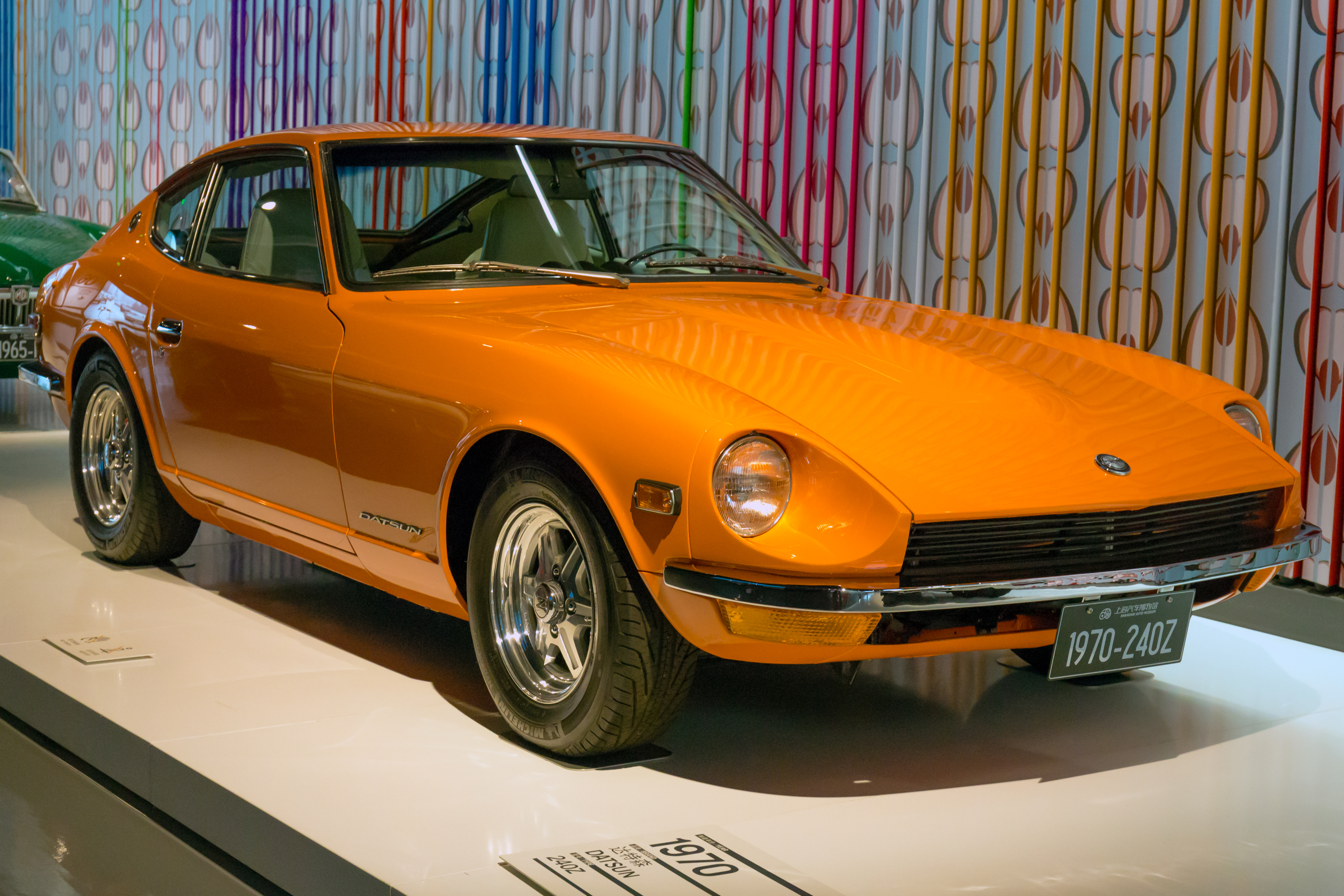 1970 Datsun 240Z